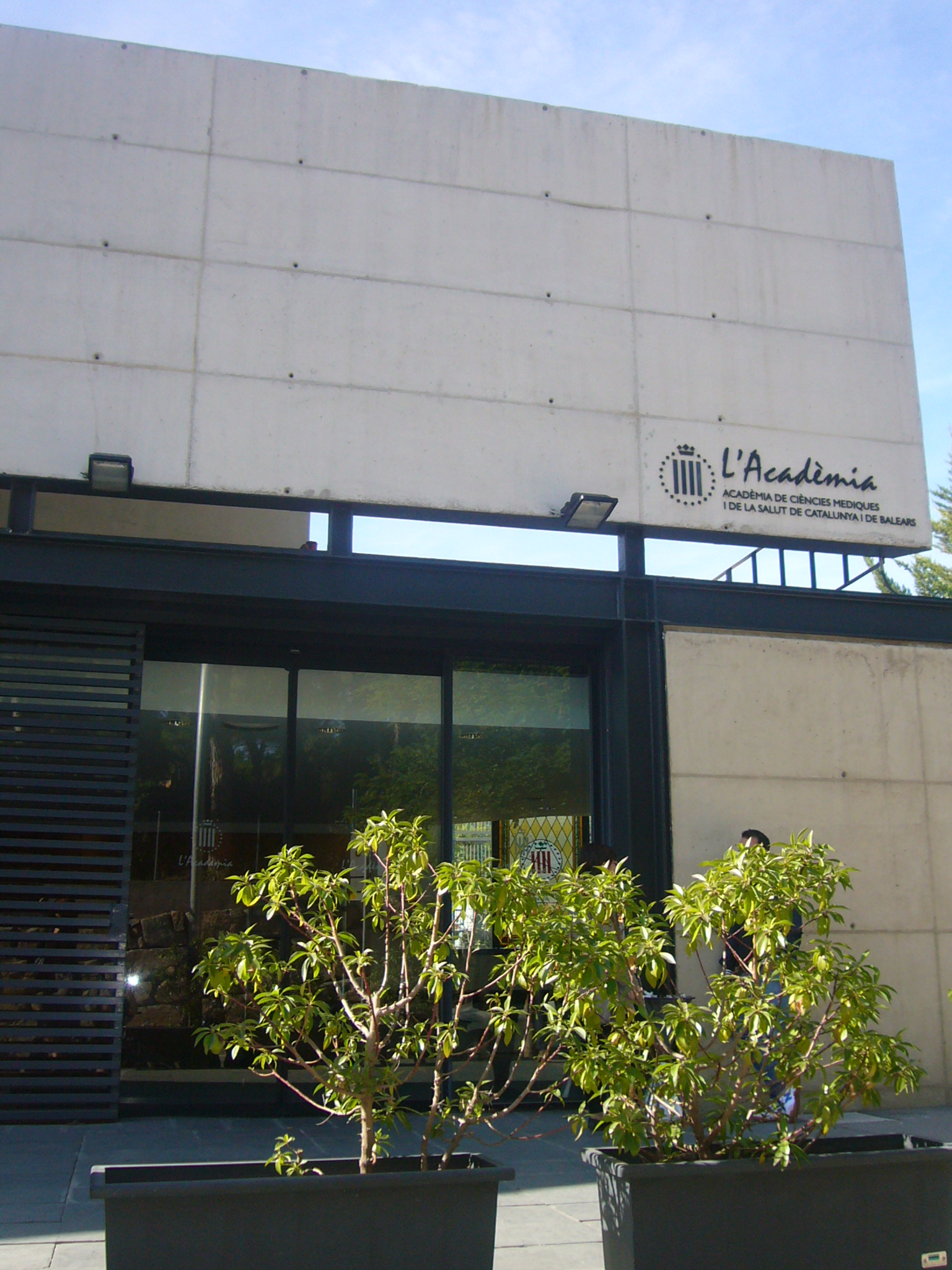 Acadèmia de Ciències Mèdiques de Catalunya i Balears, entrada